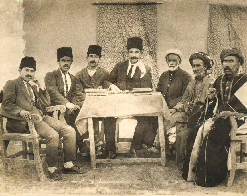 Teachers of first primary school in Sulaymaniyah,Kurdistan,Iraq in 1924